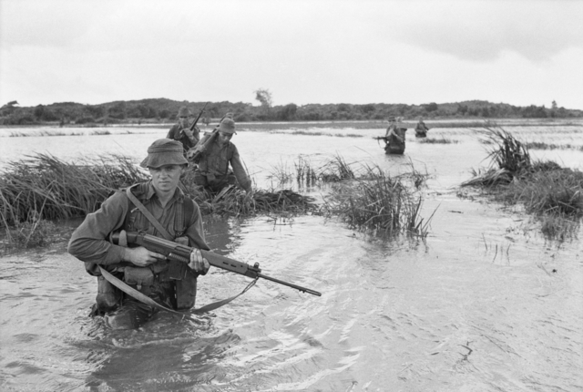 VIETNAM. 1967-09. MEMBERS OF A COMPANY, 2RAR/NZ (THE ANZAC BATTALION), COMPRISING 2ND BATTALION, THE ROYAL AUSTRALIAN REGIMENT AND A COMPONENT FROM THE 1ST BATTALION, ROYAL NEW ZEALAND INFANTRY REGIMENT, WADE THROUGH DEEP WATER TO CROSS A PADDY FIELD SOUTH-EAST OF THE AUSTRALIAN TASK FORCE BASE AT NUI DAT. THE PATROL, ALONG THE COASTAL STRIP OF PHUOC TUY PROVINCE, WAS PART OF A MOVE BY THE BATTALION TO PREVENT VIET CONG REINFORCEMENTS, SUPPLIES AND EQUIPMENT ENTERING THE PROVINCE BY SEA.